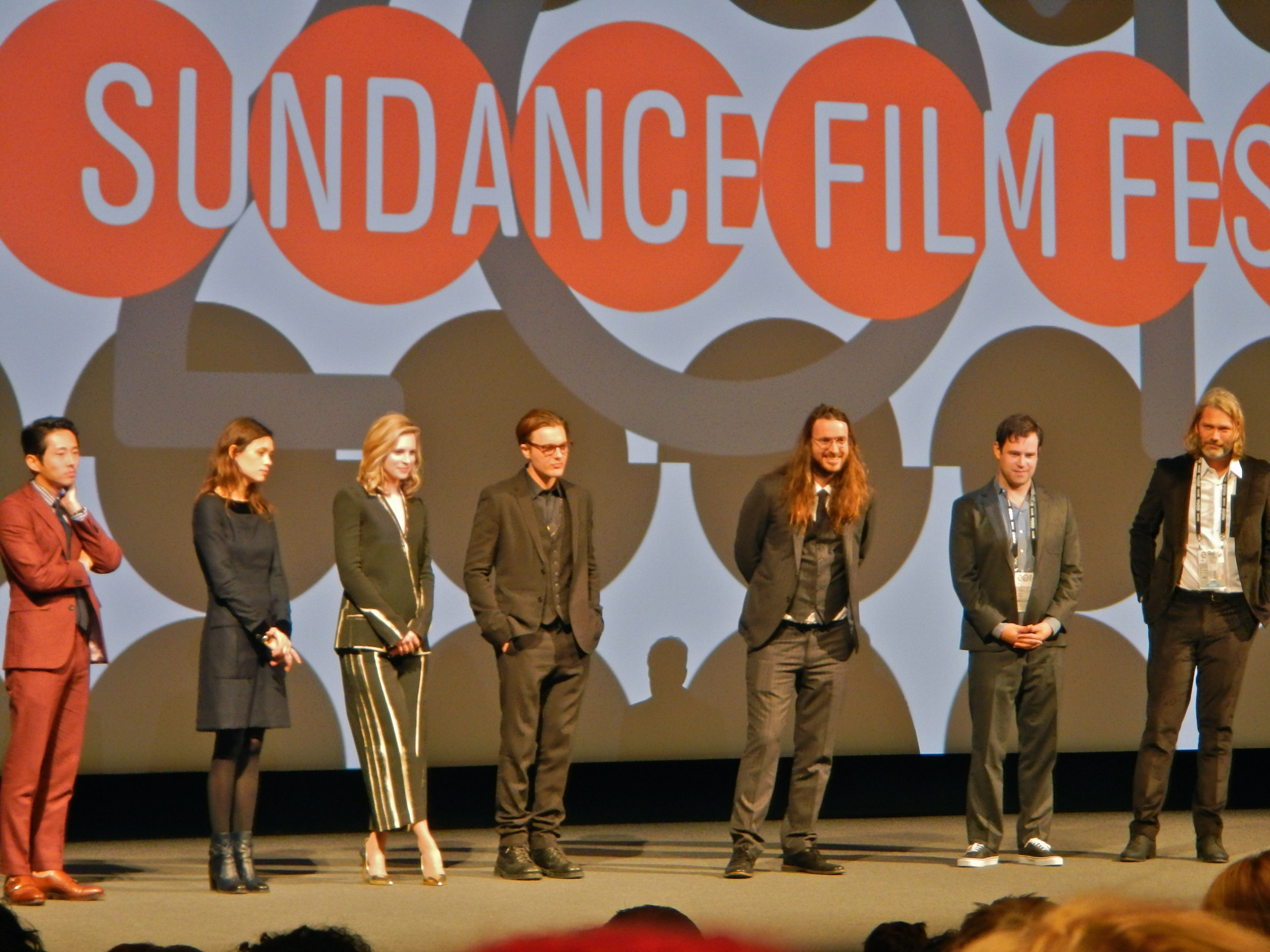 "I Origin" at Sundance 2014